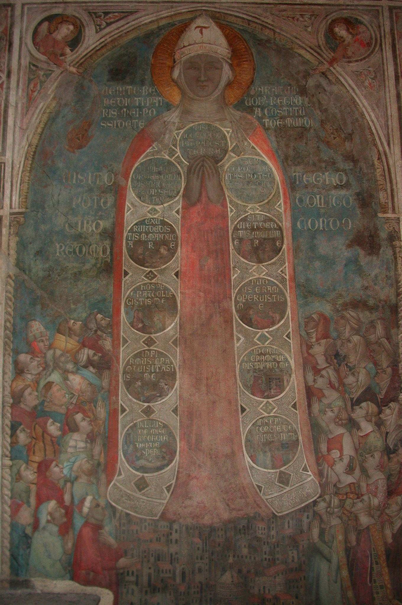 Detail: a view of Florence.